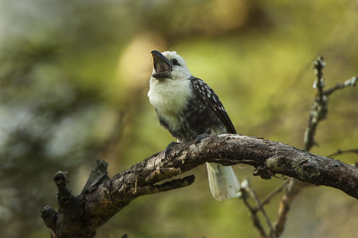 White-headed Barbet - Naivasha Kenya 06_9883